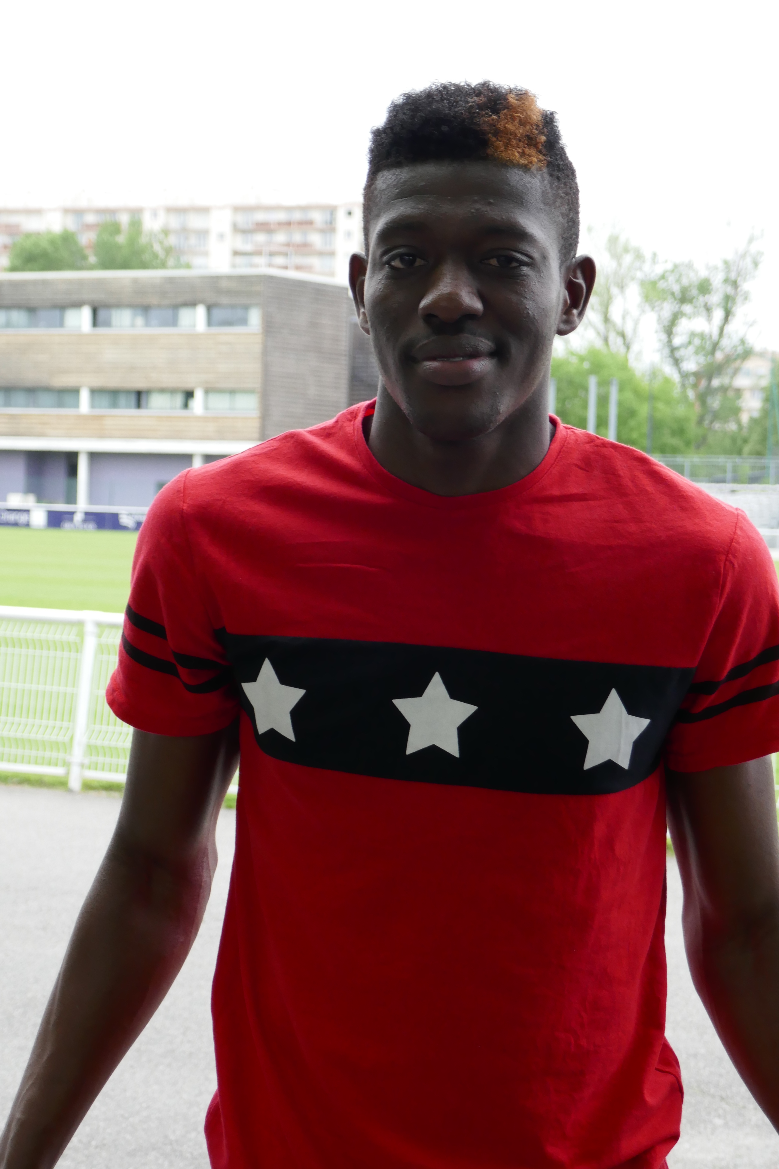 Ibrahim Sangaré after a training session, the 9th May of 2018, at the training center of the Toulouse Football Club.